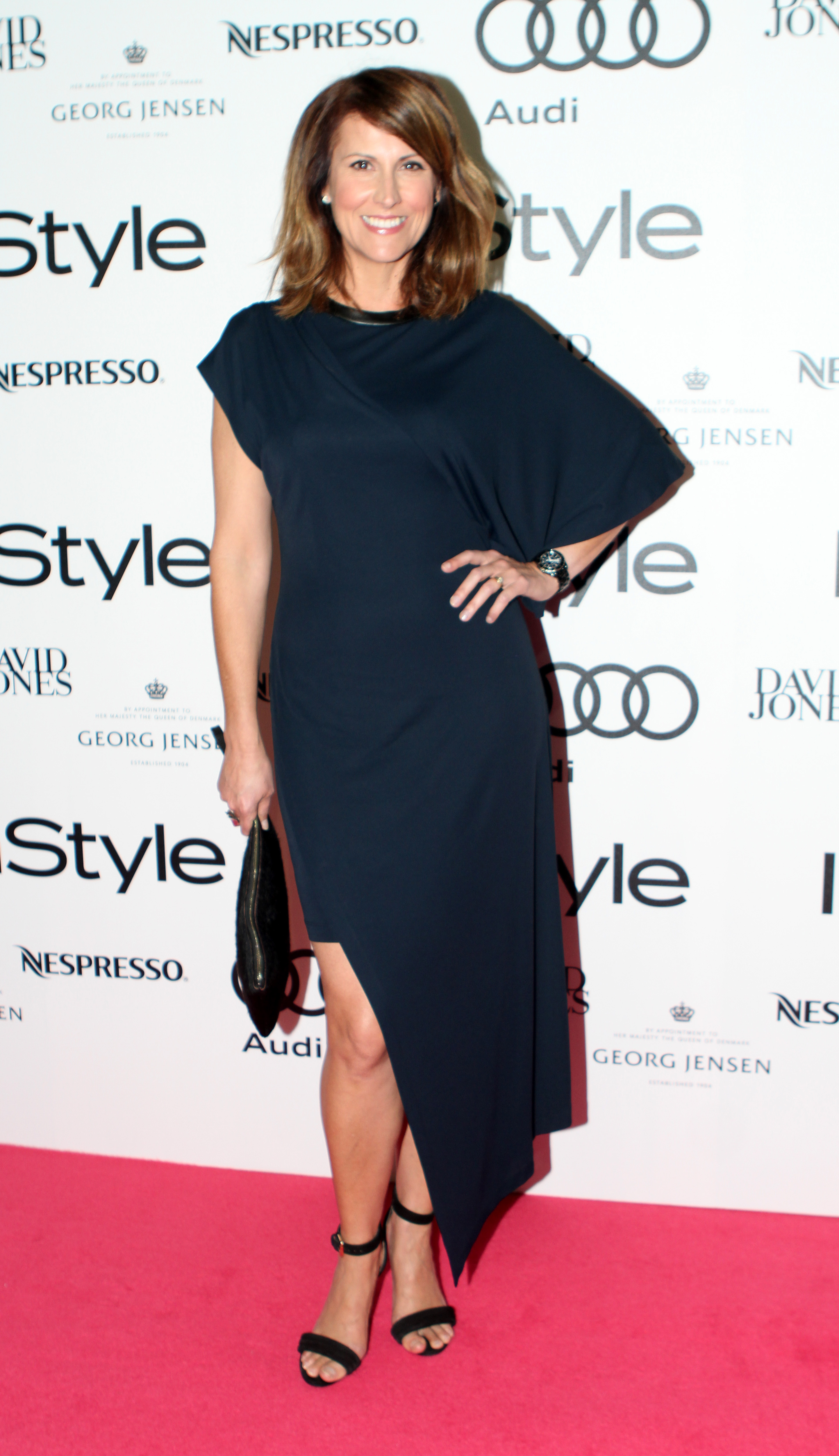 Instyle Awards 2015 InStyle and Audi Host Seventh Annual Woman Of Style Awards Red Carpet Gala Event